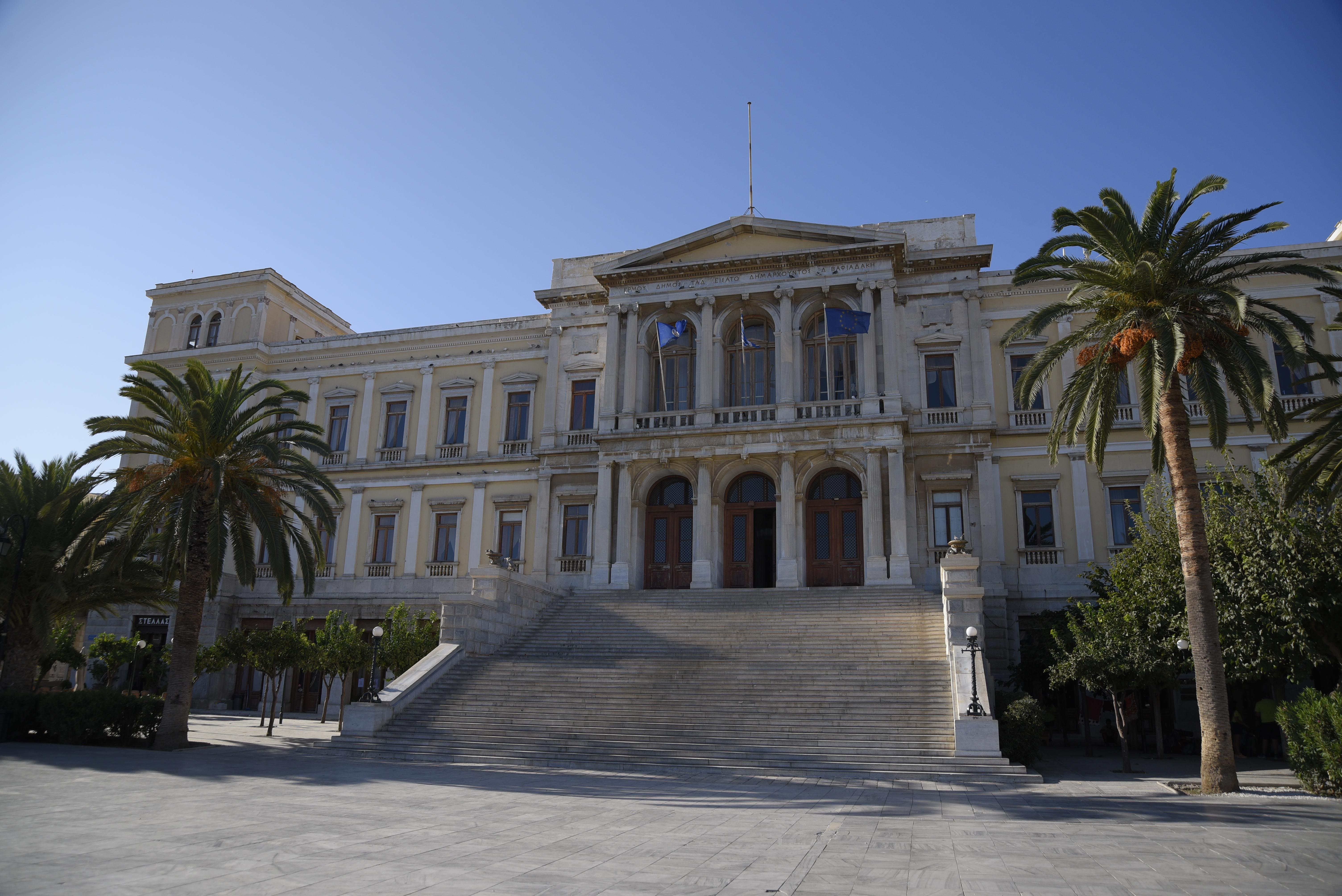 Photos from the 2017 edition of FOSScamp in Syros, Greece.